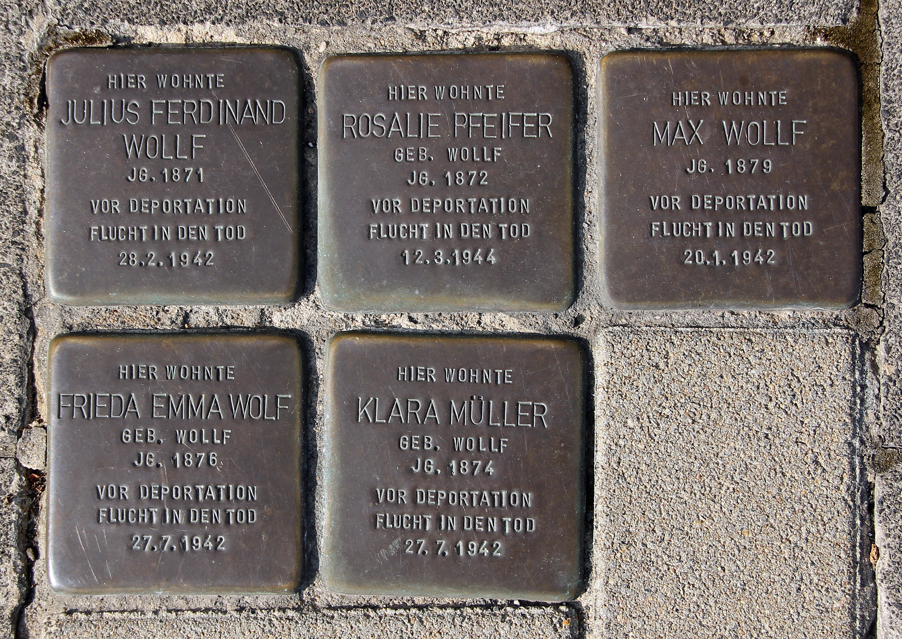 Stolperstein in Koblenz